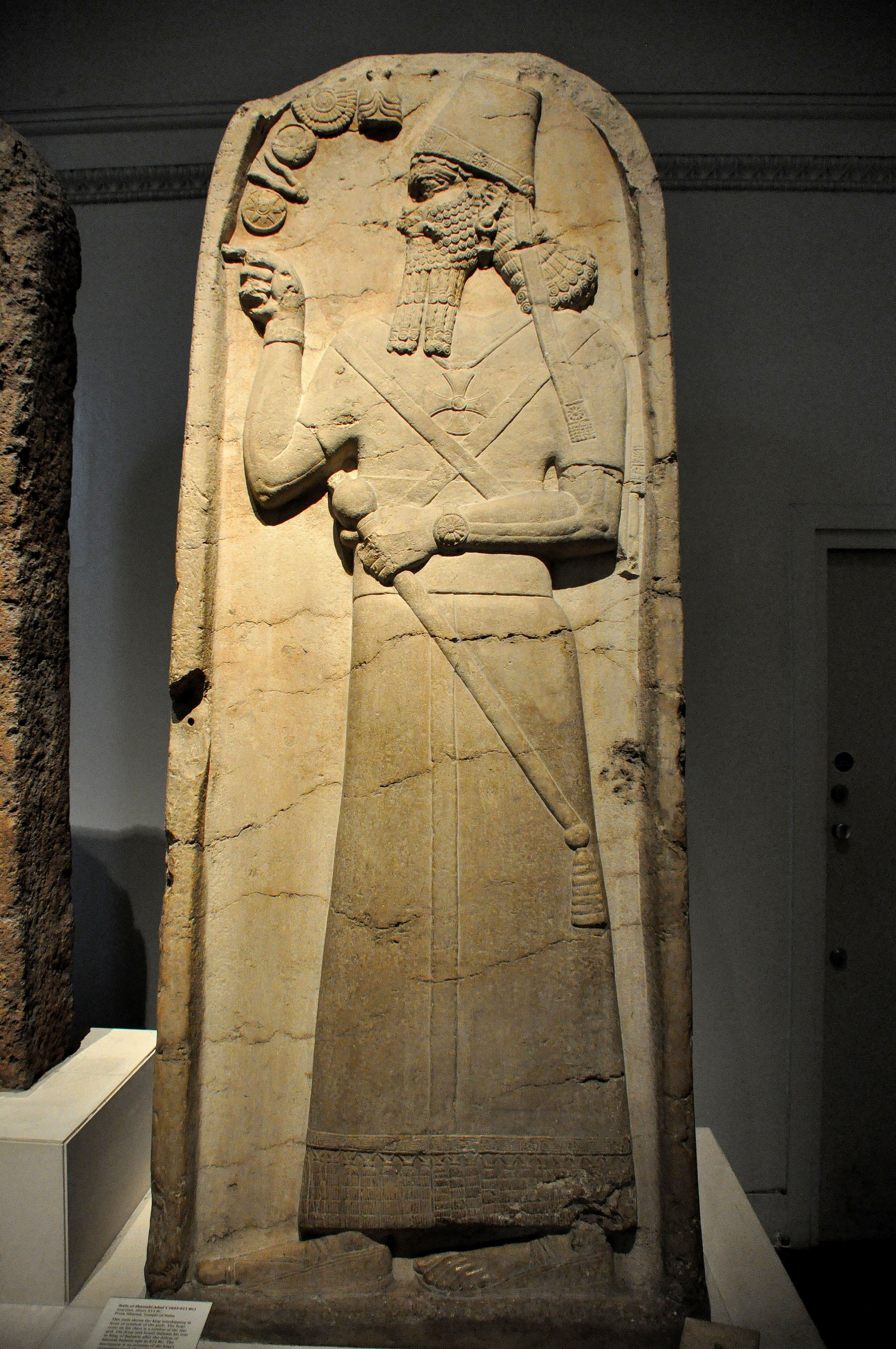 The Assyrian king worships in front of god symbols. The cuneiform inscriptions narrate the king's military campaign until 814 BCE. From the temple of Nabu at Nimrud, modern-day Ninawa Governorate, Iraq (Mesopotamia). Neo-Assyrian period, 823-811 BCE. The British Museum, London.